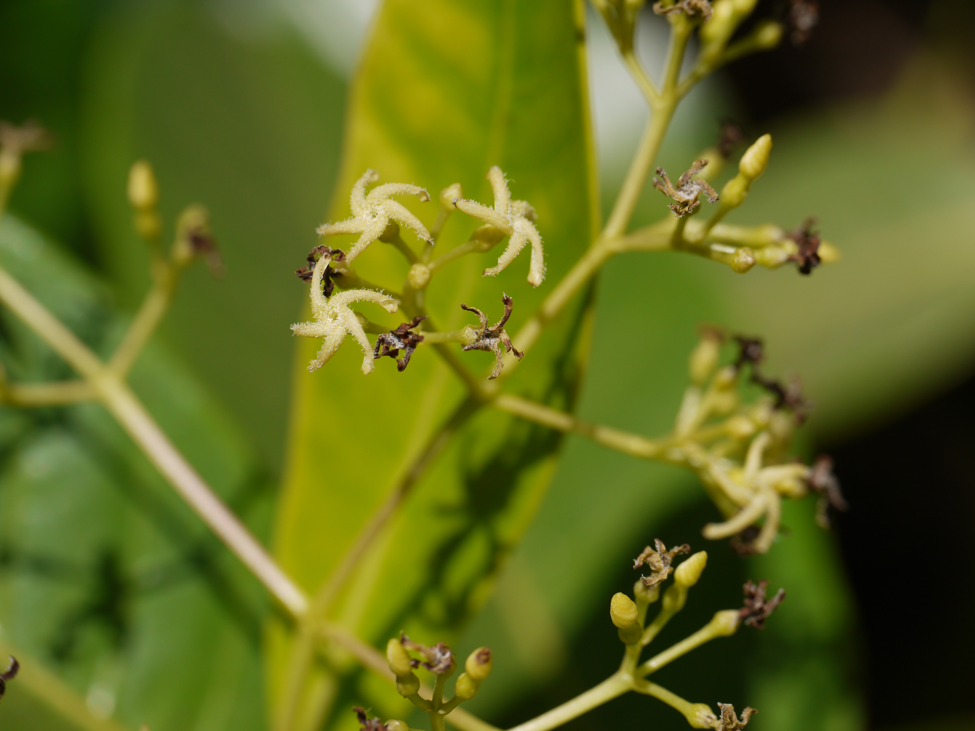 Apocynaceae (dogbane family) » Anodendron paniculatum A. DC. an-oh-DEN-dron -- Greek: ano (upward or above), dendron (tree)... Dave's Botanary pan-ick-yoo-LAY-tum -- referring to the flower clusters (panicles) ... Dave's Botanary commonly known as: Andamanese bowstring plant, twin-net • Kannada: ಮಣಿಬಳ್ಳಿ maniballi • Konkani: ¿ किती ? kiti • Malayalam: കാക്കക്കൊടി kakkakkoti • Marathi: कावळी kavali, लामतानी lamtani • Mizo: theikelki suak Native to: Indian subcontinent, Indo-China, Malesia References: Flowers of India • PIER • NPGS / GRIN • ENVIS - FRLHT